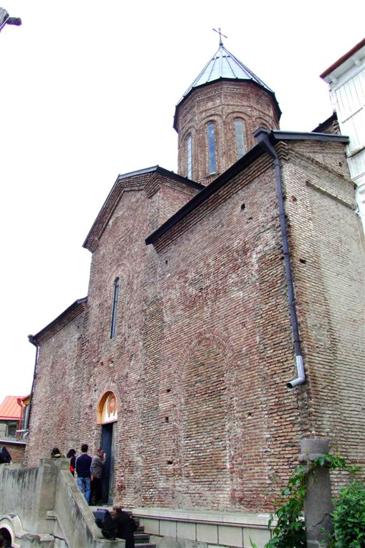 Kusants armenian churh in Tbilisi